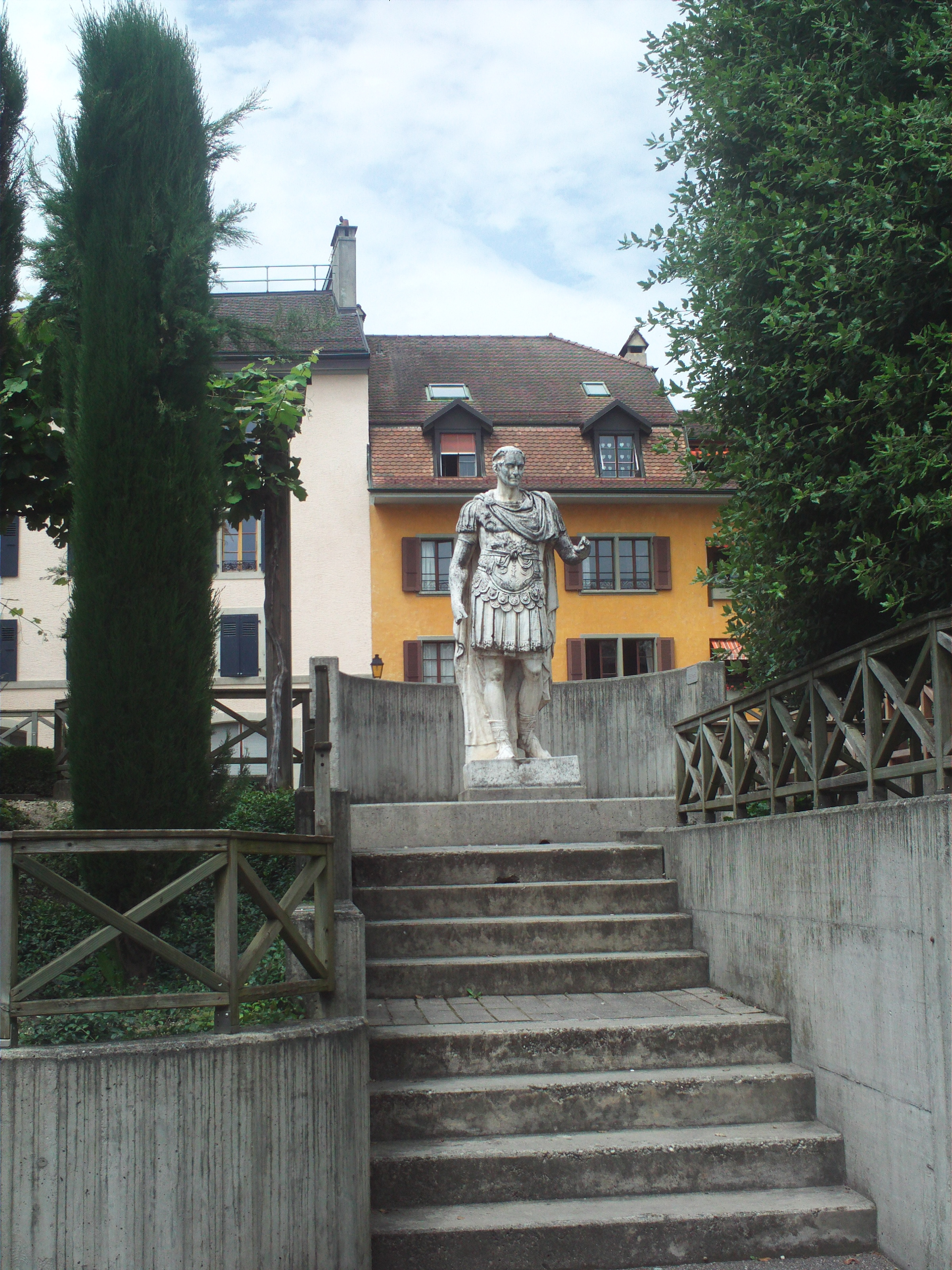 Statue of Julius Caesar outside the Roman Museum in Nyon.